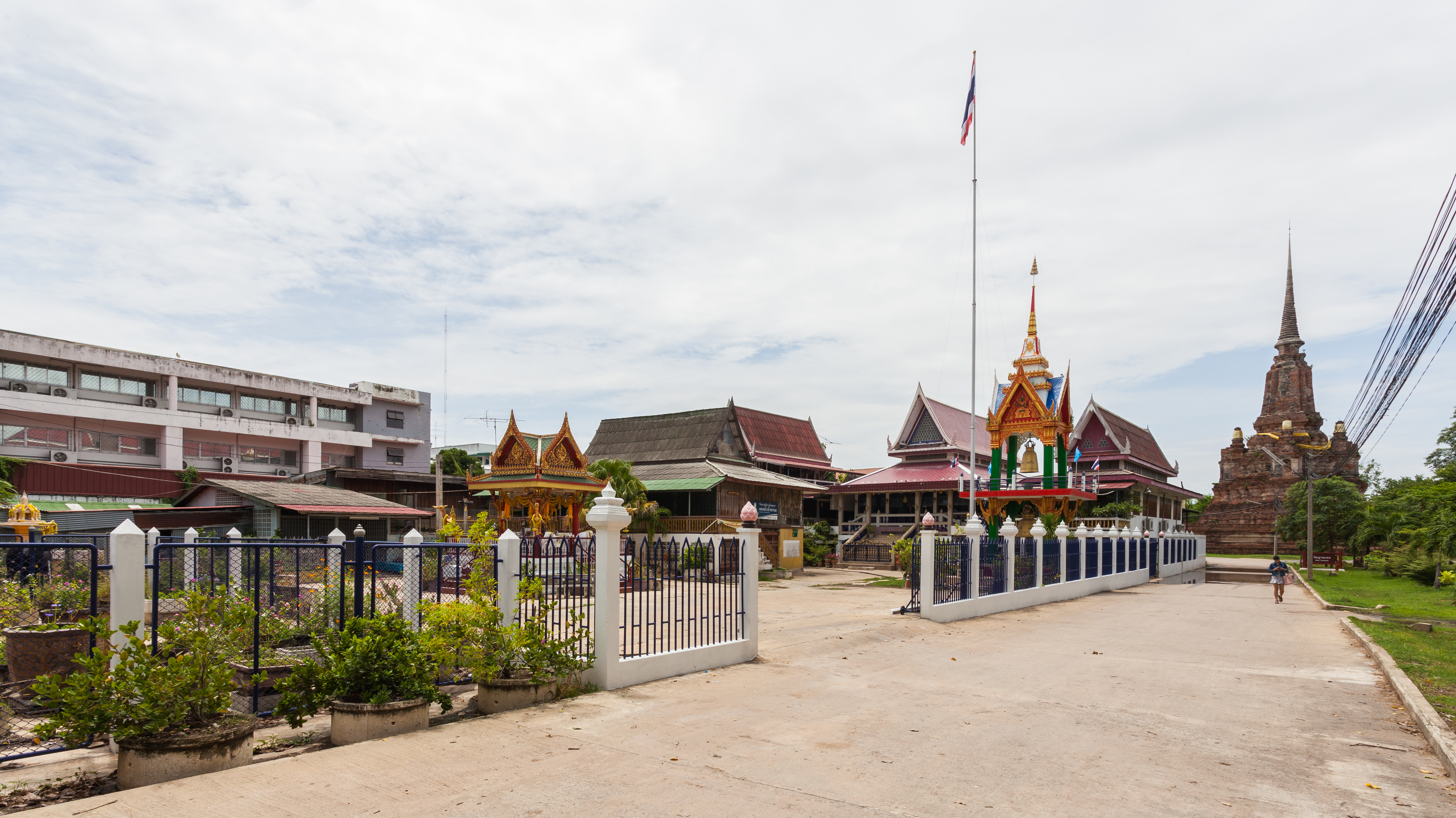 Yanasen temple, Ayutthaya, Thailand